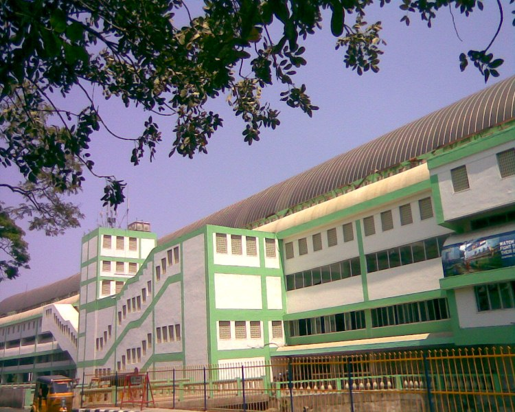 Chepauk railway station as viewed from victoria hostel road